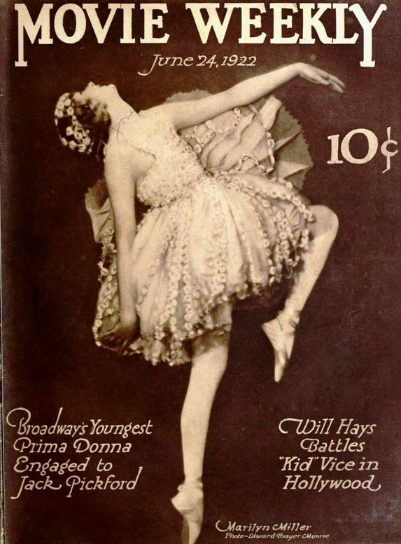 Actress Marilyn Miller, on the cover of the June 24, 1922 Movie Weekly.